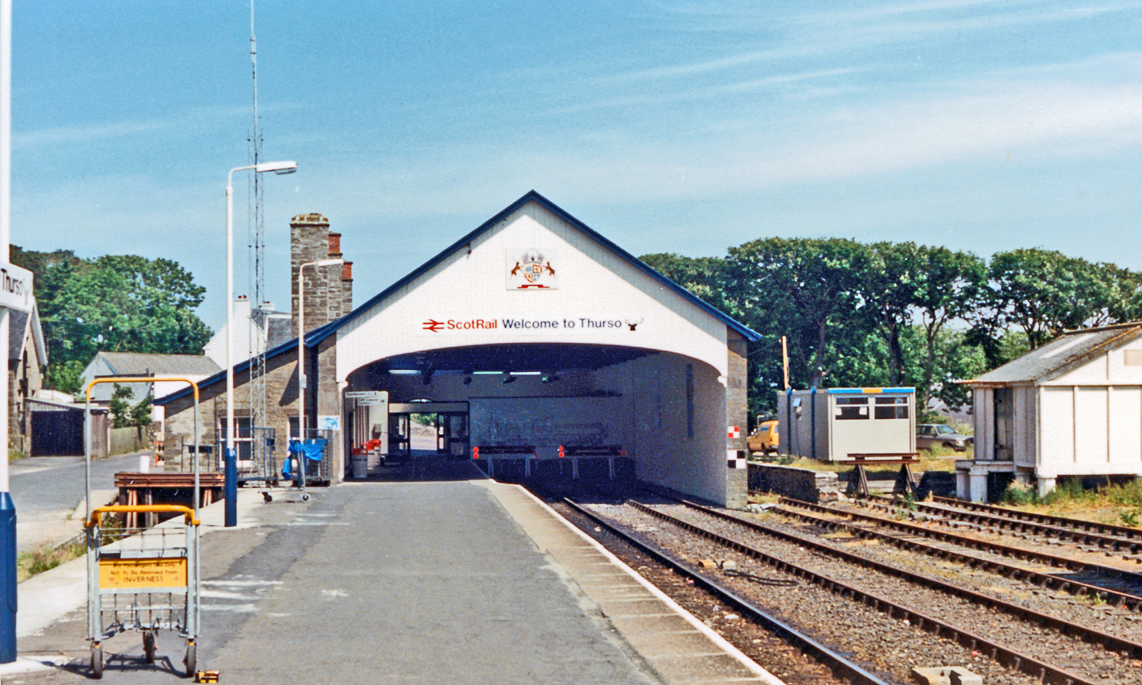 Thurso Station, 1986. View northward, to buffer-stops: ex-Highland Railway terminus of line from Georgemas Junction, Helmsdale, Lairg, Dingwall and Inverness 'Far North Line'